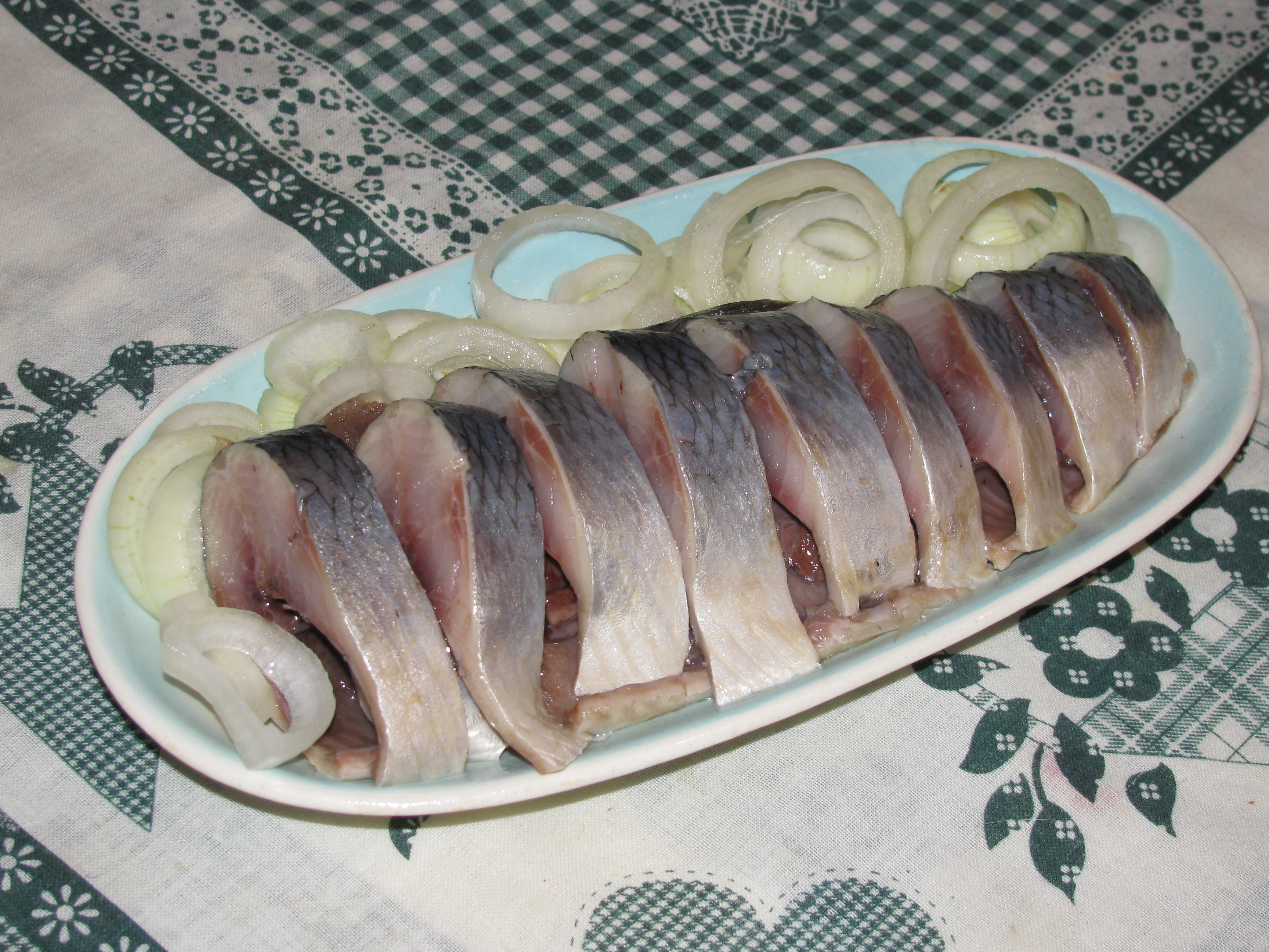 Brined herring with onions and marinade